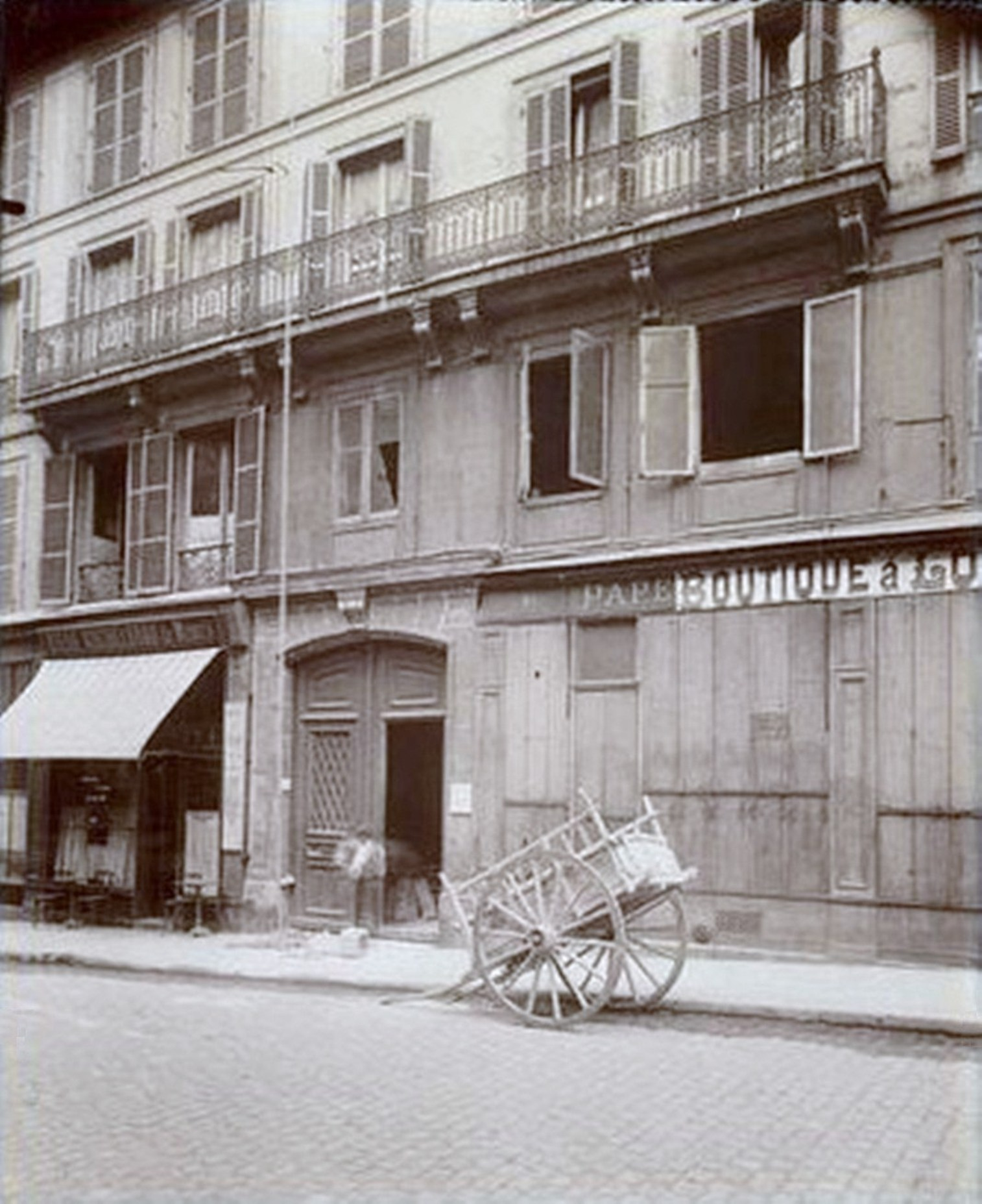 Amantine Aurore Lucile Dupin, future George Sand, french novelist and memoirist, was born on July 1st, 1804 in Paris at 15 rue Meslay, now number 46, in the 3rd arrondissement.